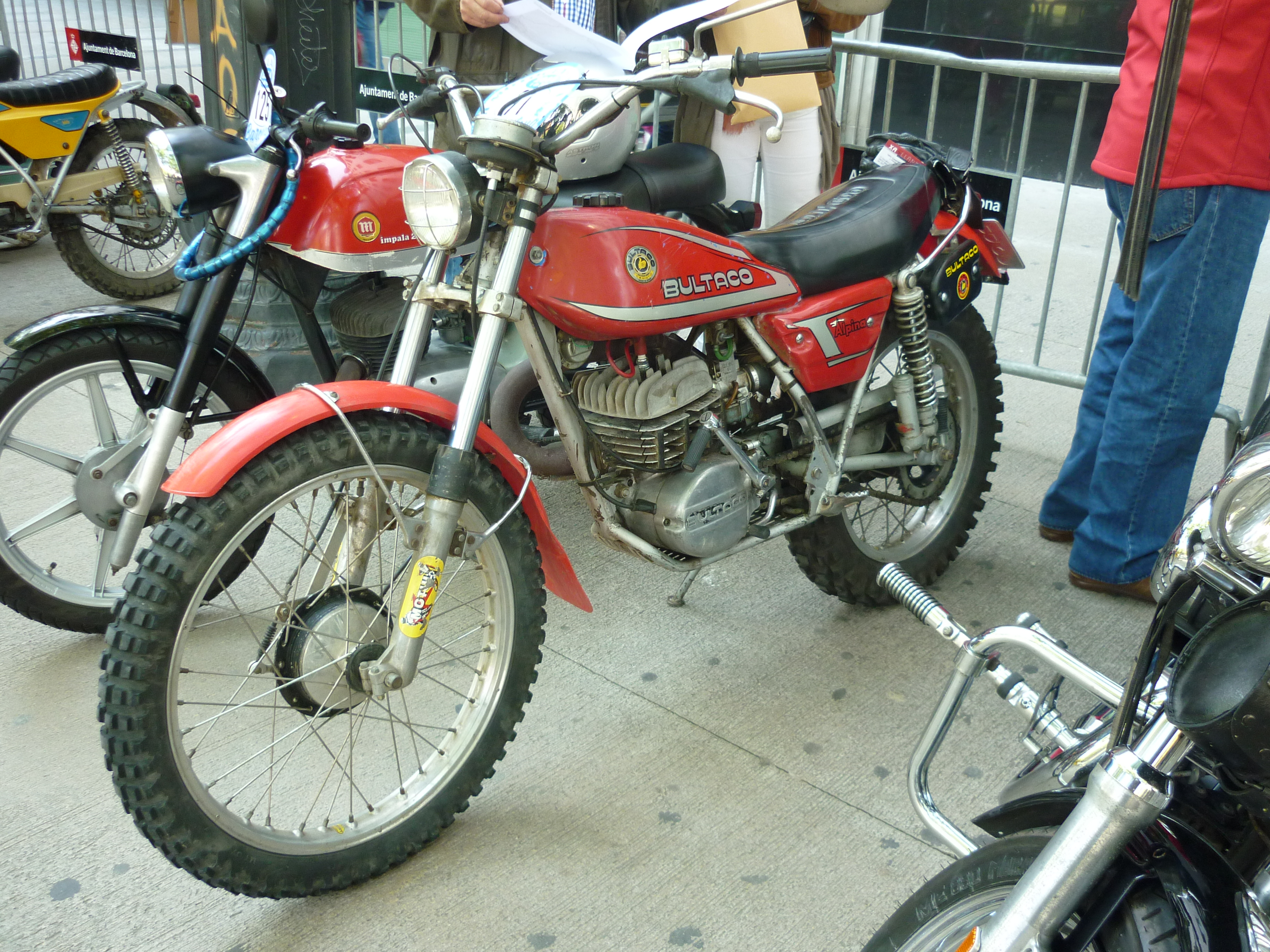 Bultaco Alpina 350cc (1976). The original fenders were made of aluminum and were raised.